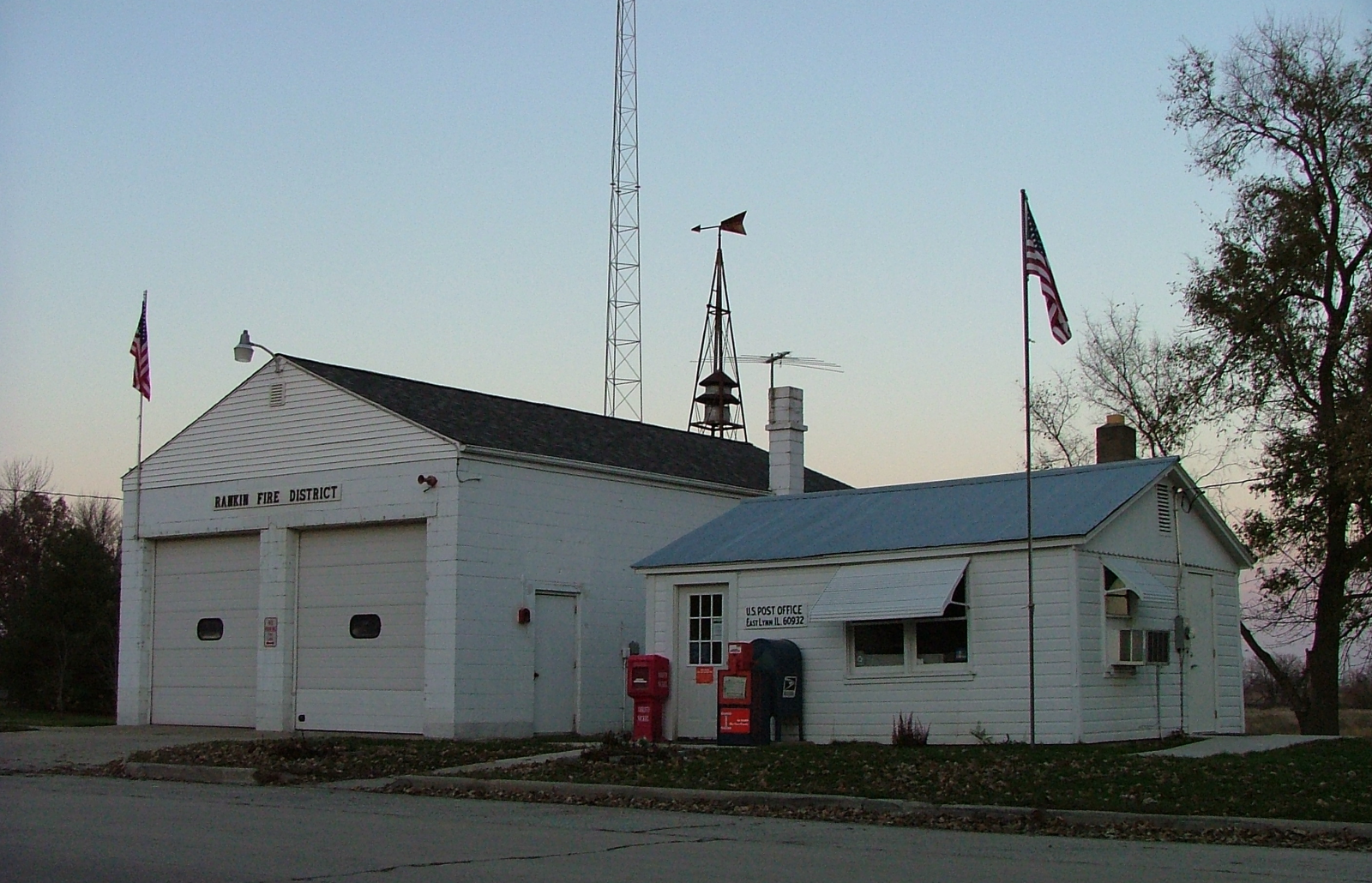 The post office and fire department buildings in East Lynn, Illinois, looking east